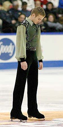 Kevin Van Der Perren competes his long program at the 2003 Skate Canada competition in Mississauga, Ontario.